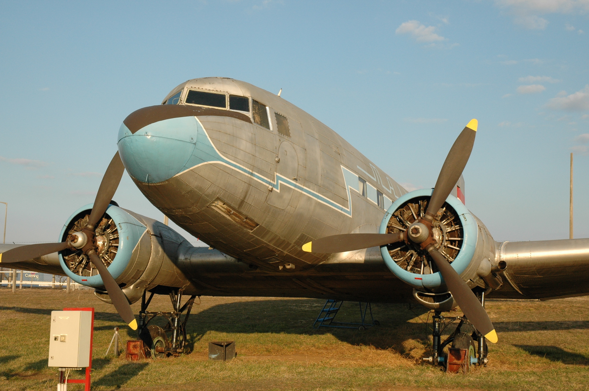 Lisunov Li-2 (reg. HA-LIQ), displayed at the Aviation Memorial Park (Budapest, Hungary)